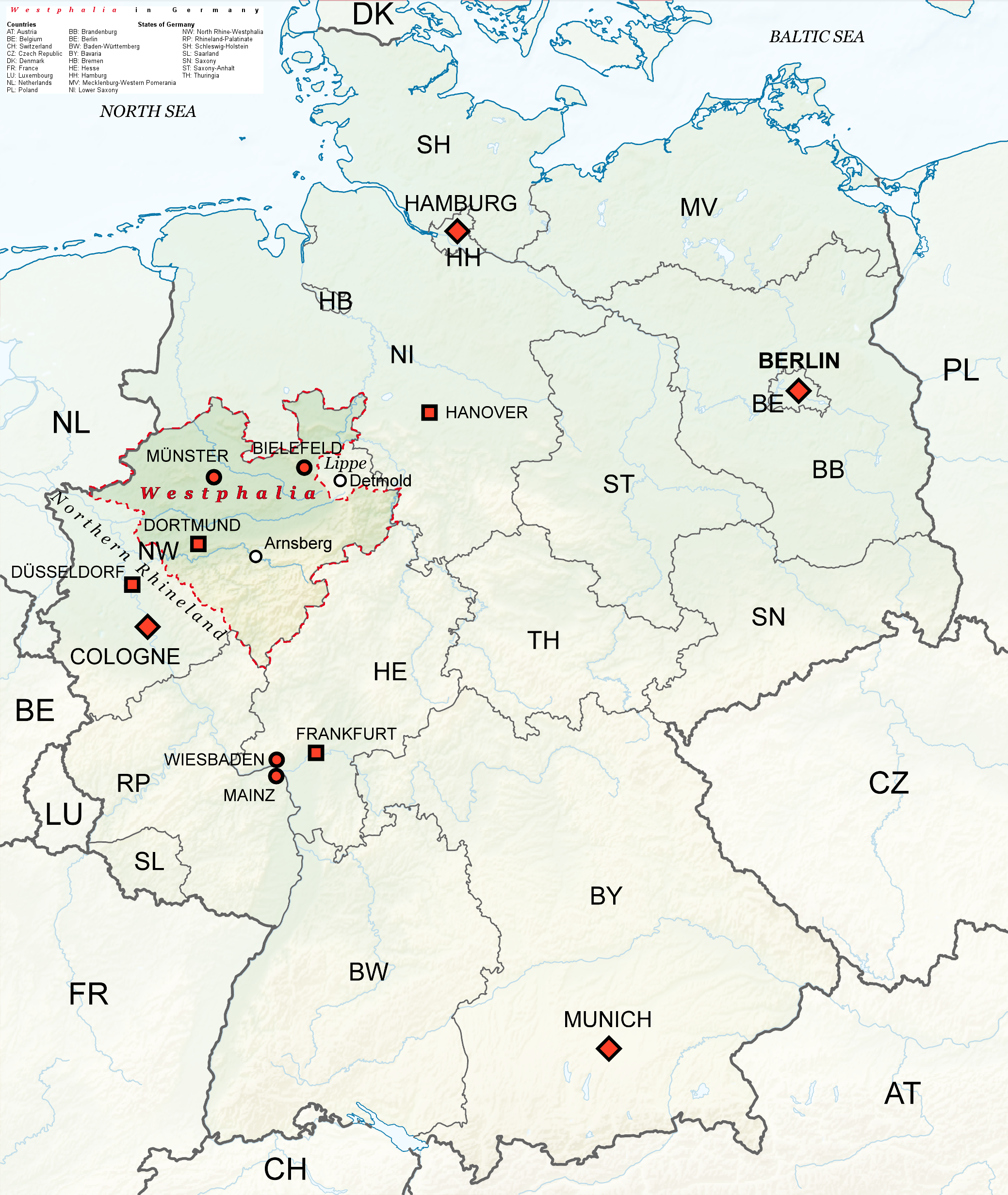 Location of Westphalia in Germany. Created with the help of and by User:TUBS.